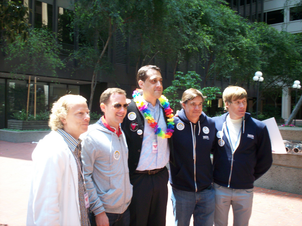 From left to right: the two producers Bruce Cohen and Dan Jinks, Harvey's nephew Stuart Milk, director Gus Van Sant and screenwriter Dustin Lance Black. You may use this photo as long as you credit "Strange de Jim